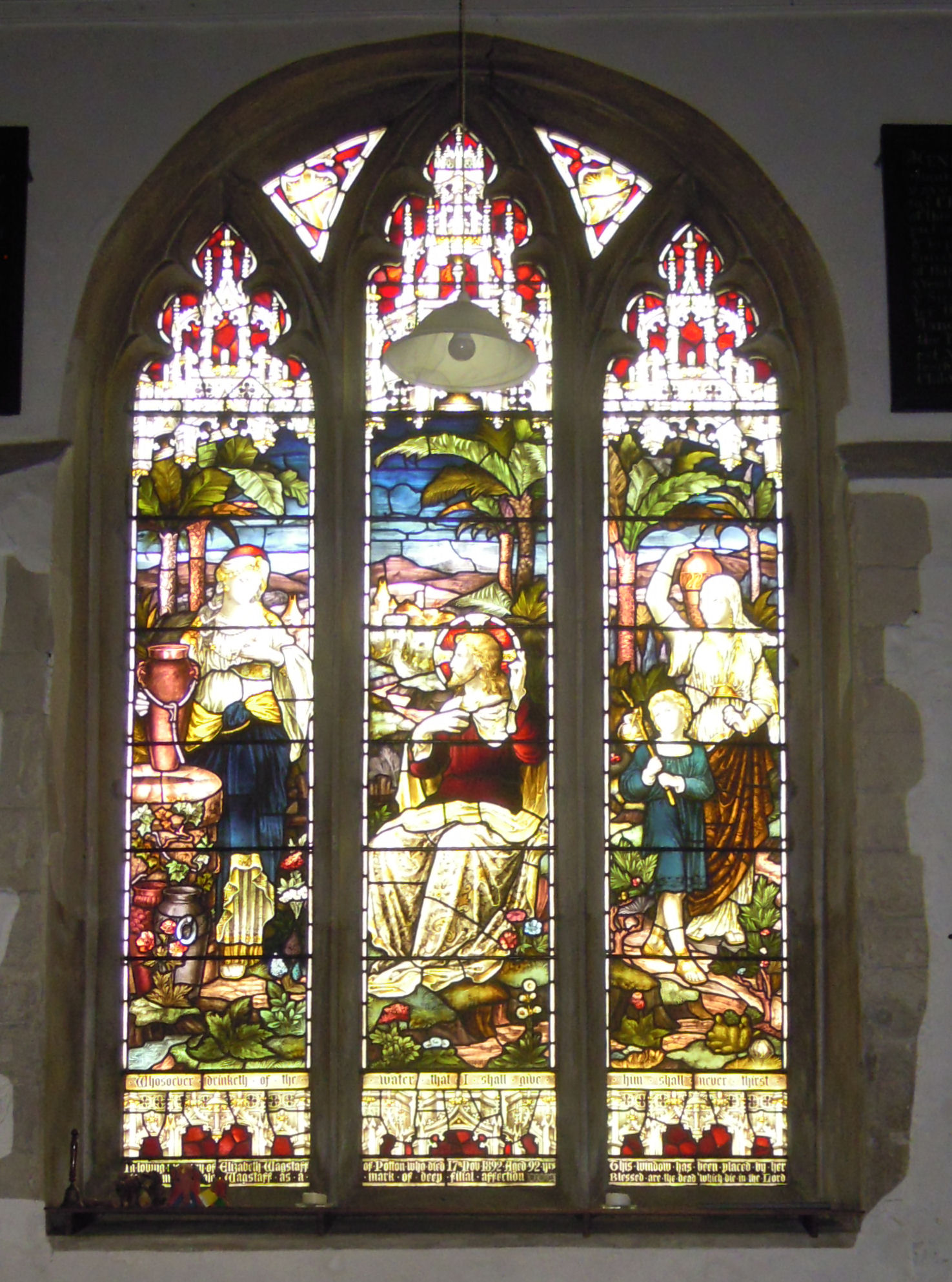 The window in the North transept of Church of St Mary the Virgin in Potton in Bedfordshire in memory of Elizabeth Wagstaff